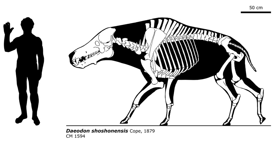 Skeletal reconstruction of the specimen CM 1594 of Daeodon shoshonensis, the most complete specimen found yet, it was originally the holotype of Dinohyus. It's a large animal but based on the type being just a bit smaller and most of the other (few and fragmentary) known specimens being about the same or even slightly larger, CM 1594 appears to represent the "average" fully grown adult.